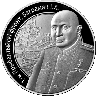 Belarus and the global community. Commemorative coins "1-s Prybaltyyski front. Baghramyan I.H." ("1 st Baltic Front. Baghramyan IH)